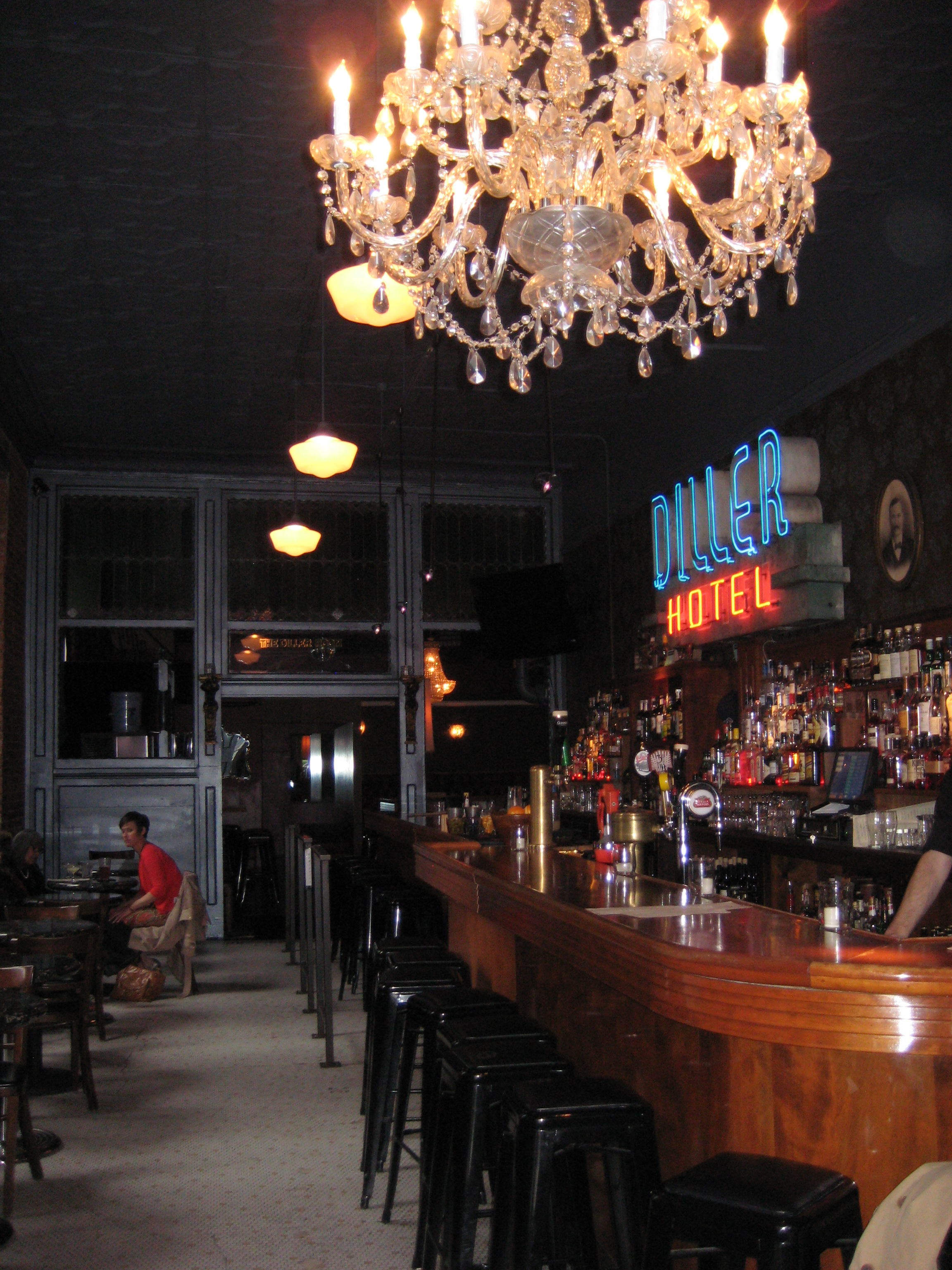 Interior bar of the Diller Room